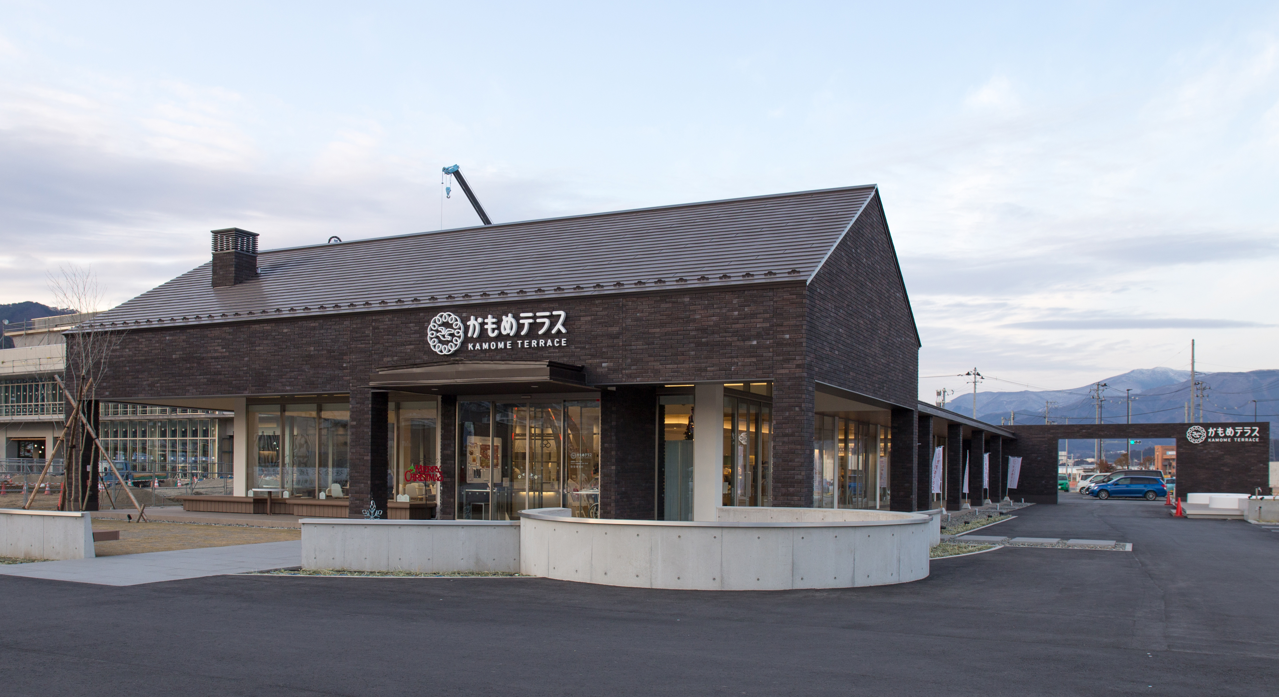 Kamome Terrace (confectionery Saito Seika main store) in Ofunato City, Iwate Prefecture, Japan